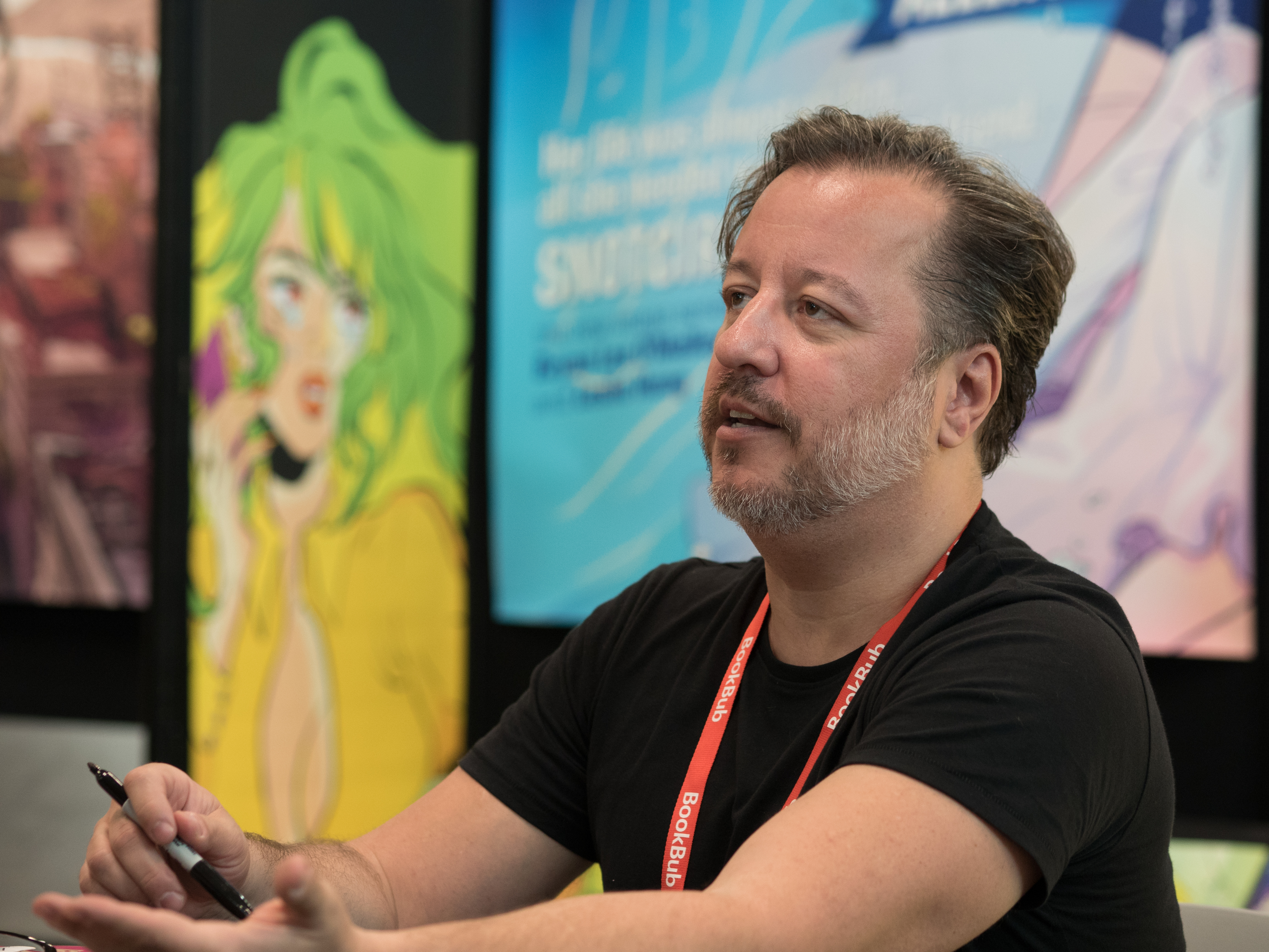 Dean Haspiel BookExpo America 2018 at the Javits Convention Center in New York City.